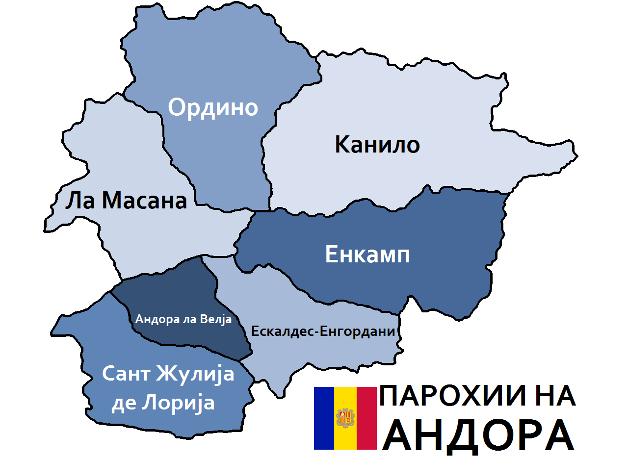 Поделба на Андора по единици наречени парохии